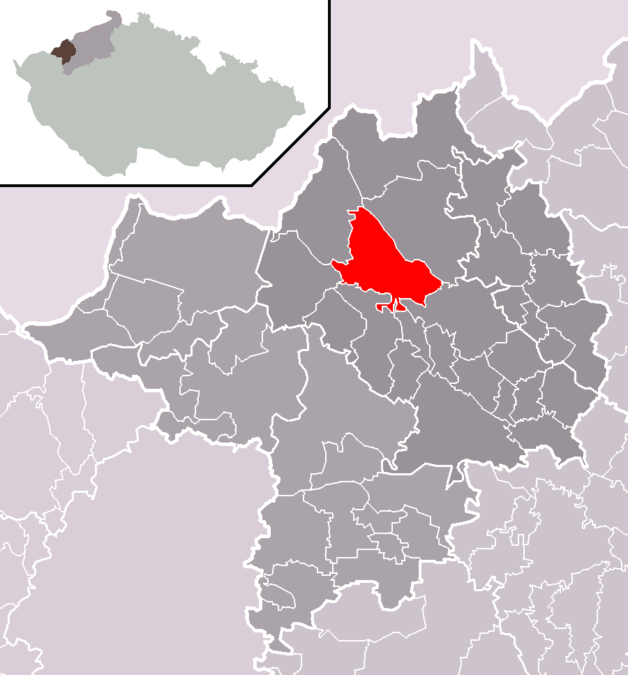 Location of Křimov municipality within Chomutov District and administrative area of Chomutov as a Municipality with Extended Competence.